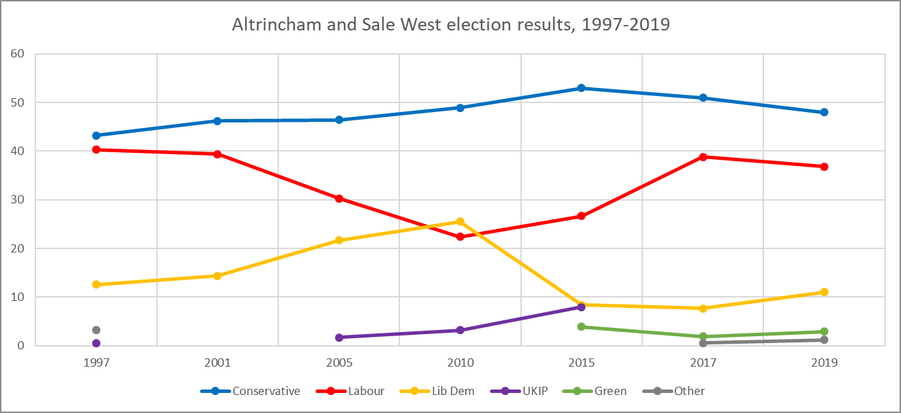 Graph showing election results for Altrincham and Sale West constituency.